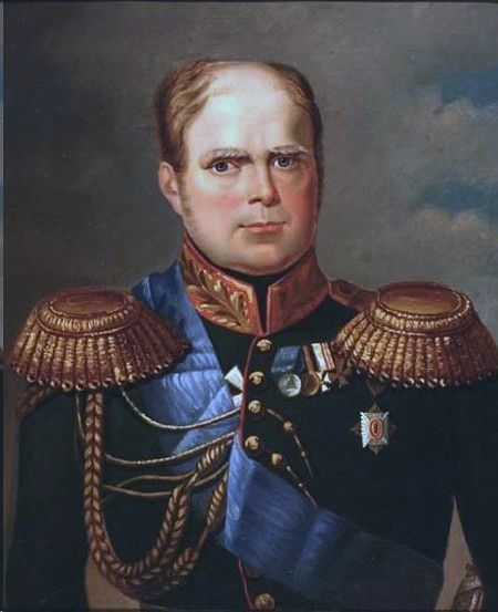 Grand Duke Constantine Pavlovich Romanov